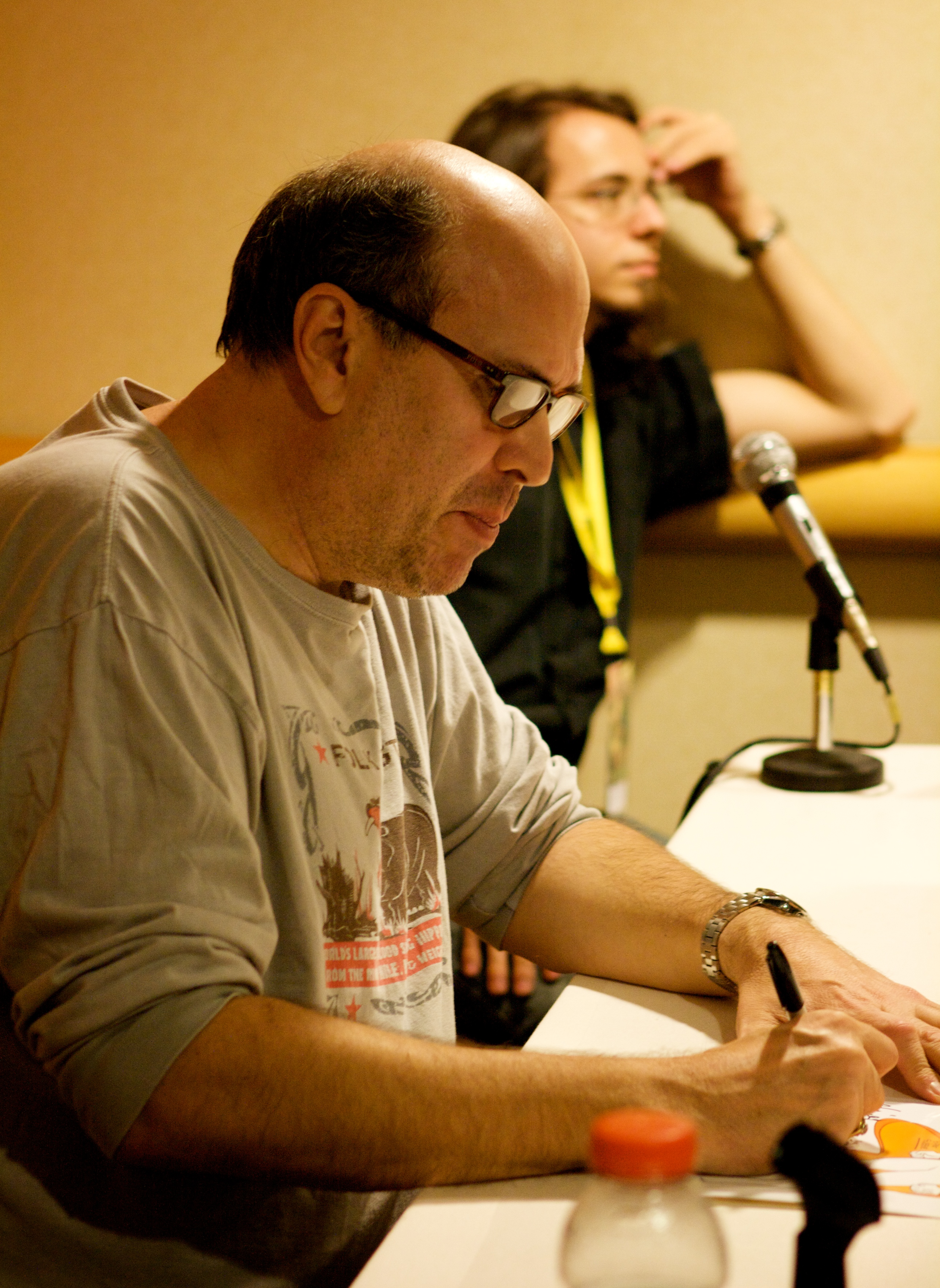 George Lowe at Dragon*Con 2008